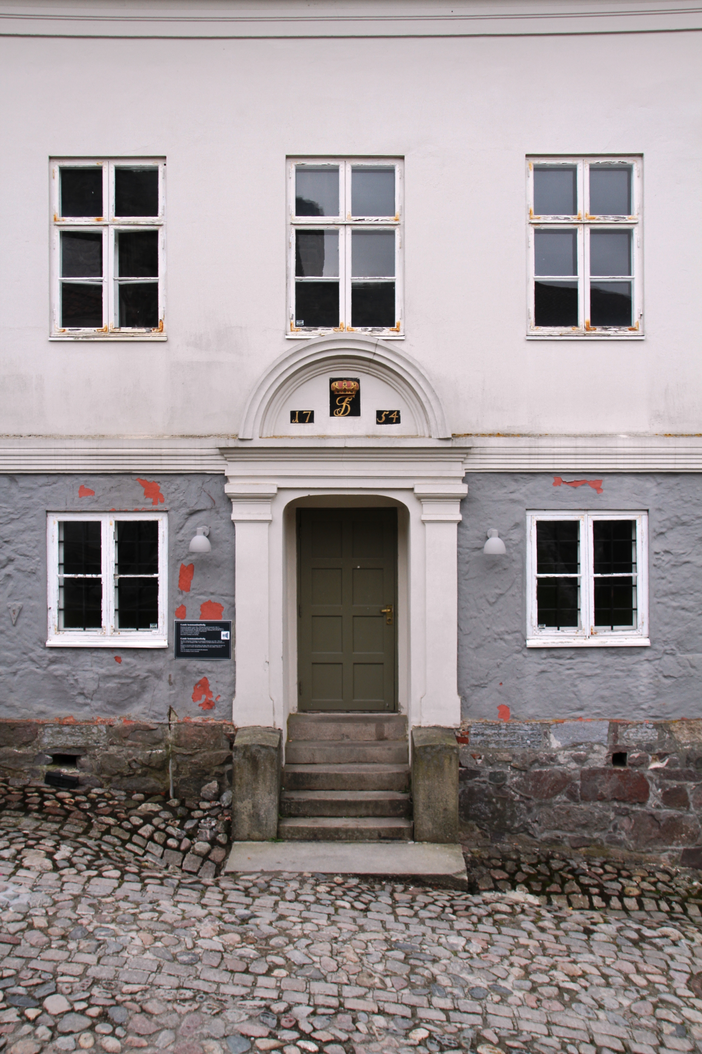 Den gamle kommandantbolig - building at Fredriksten fortress in Halden, Norway, originally from 1754. Burned down in 1826 and rebuilt by Balthazar Nicolai Garben in 1832. Monogram of Frederik V of Denmark and Norway above the entrancedoor.